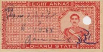 Loharu State, (Punched-Through) State Court Fee Stamp, 8 Annas, with image of Nawab Amin ud-din Ahmad Khan, (r. 1926-1947), before 1947, the state was acceded to Union of India on Independence.